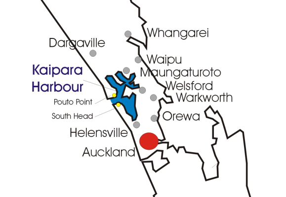 Map of North Island New Zealand, Location of Kaipara Harbour Detail